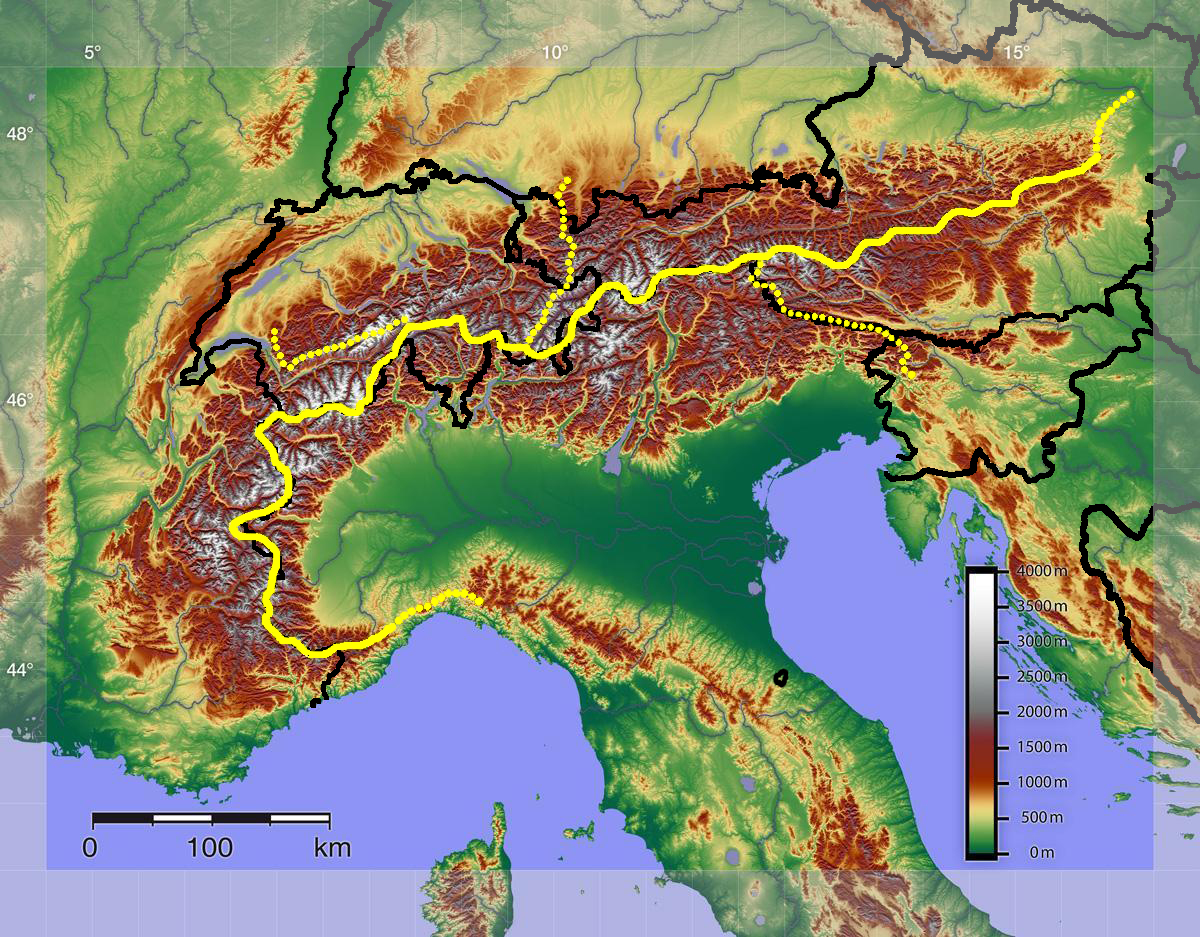 Main chain (YELLOW) of the Alps, and other important watersheds of the Alps plus borders (BLACK).